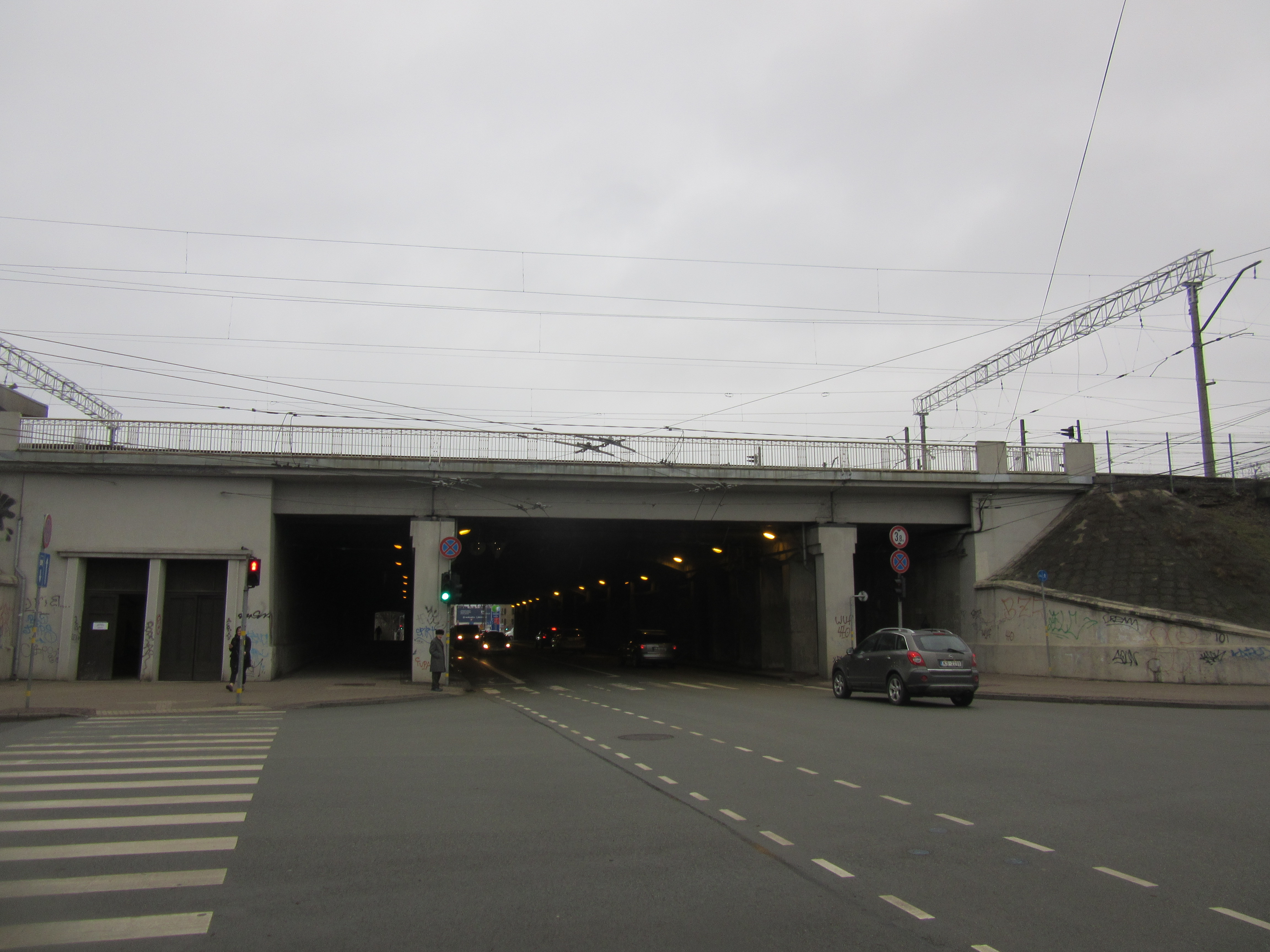 Dzirnavu street tunnel 2